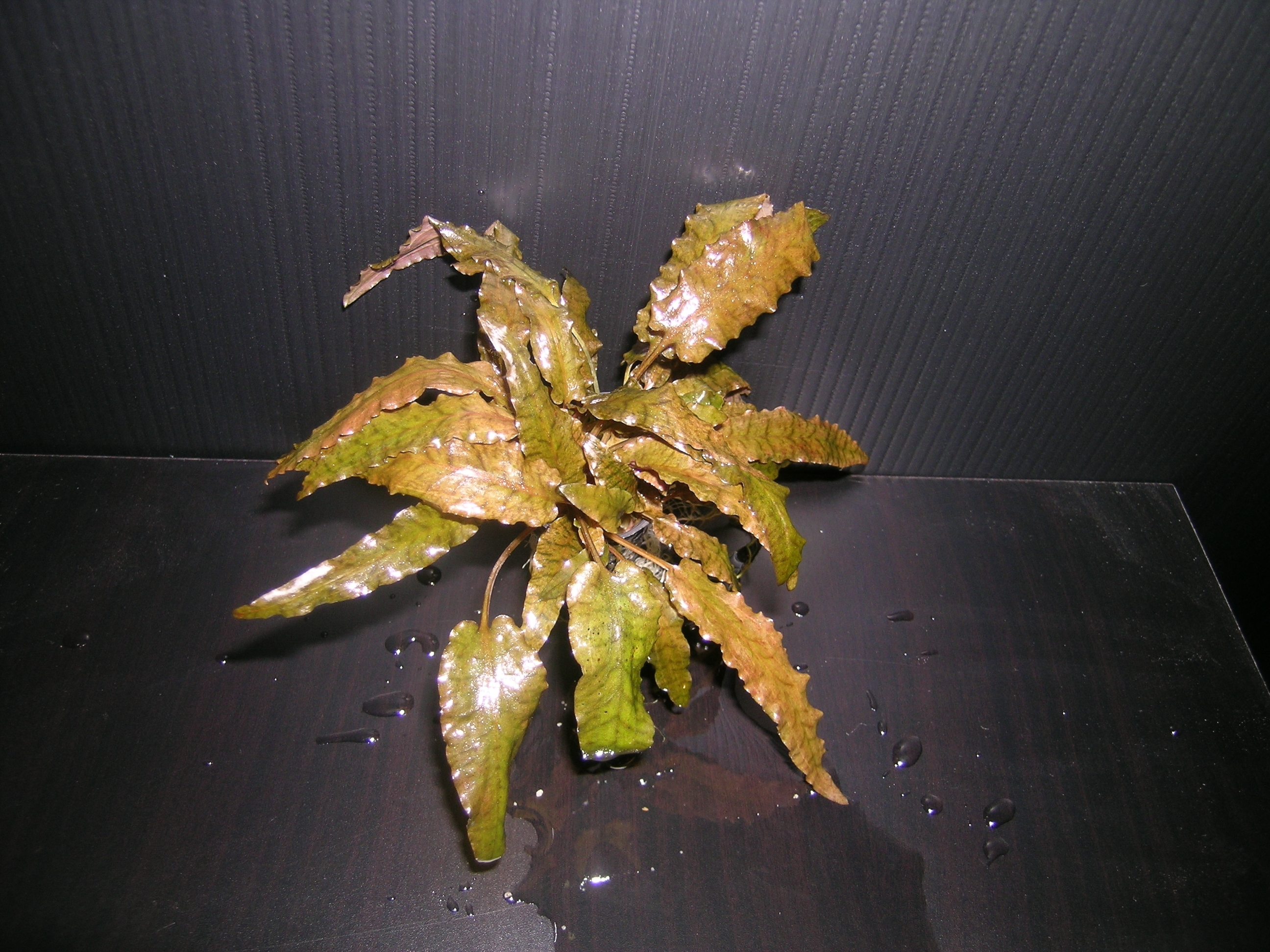 Cryptocoryne wendtii from Tropica farm クリプトコリネ・ウェンティ トロピカファーム系の個体。アクアリウム用の水草の一種。(Cryptocoryne wendtii is a waterplant. It is used in aquarium) It is one's private property.